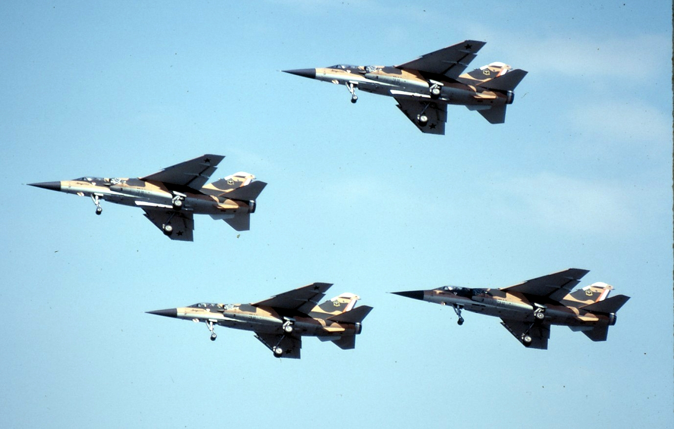 Mirage F1CZ in formation at AFB Ysterplaat air show